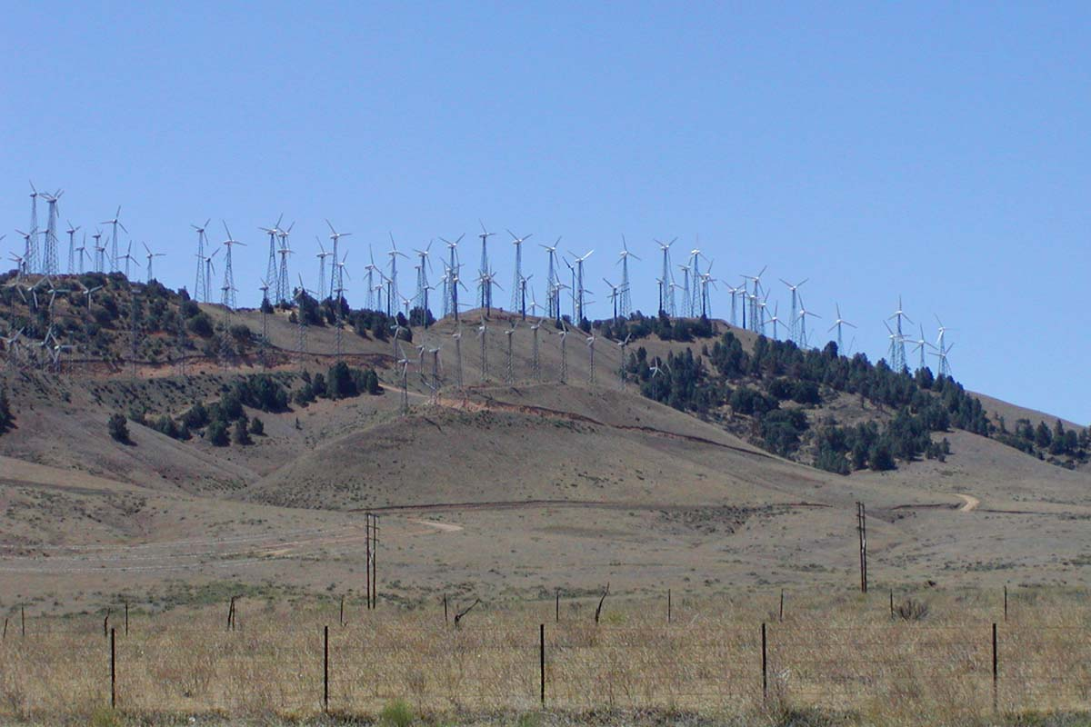 Photo of wind farm in the Tehachapi Mountains of California